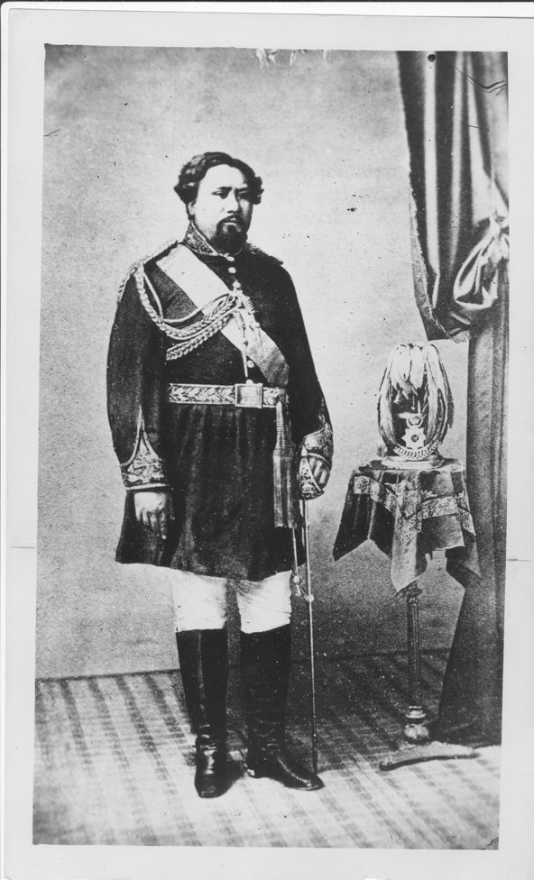 King Kamehameha V in military uniform.